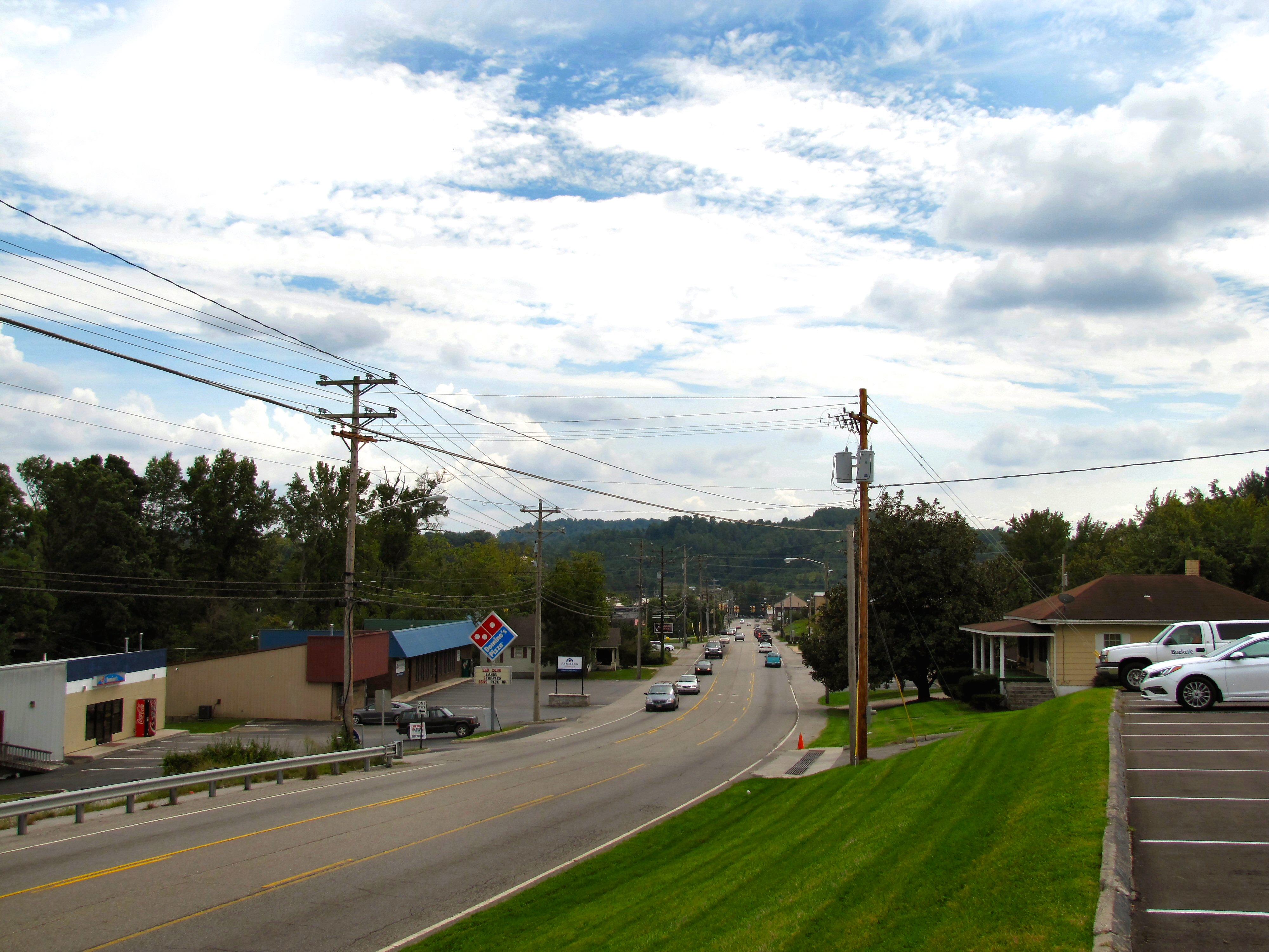 US-27 (Alberta Street) in Oneida, Tennessee, United States.